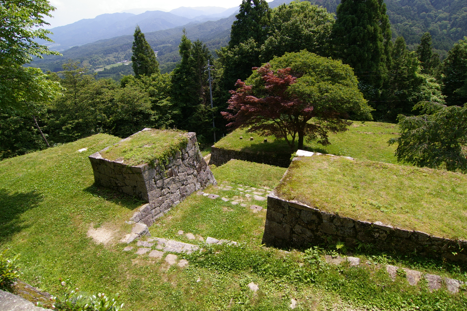 Iwamura Castle (Agi Nakatsugawa City, Gifu Pref, Japan)